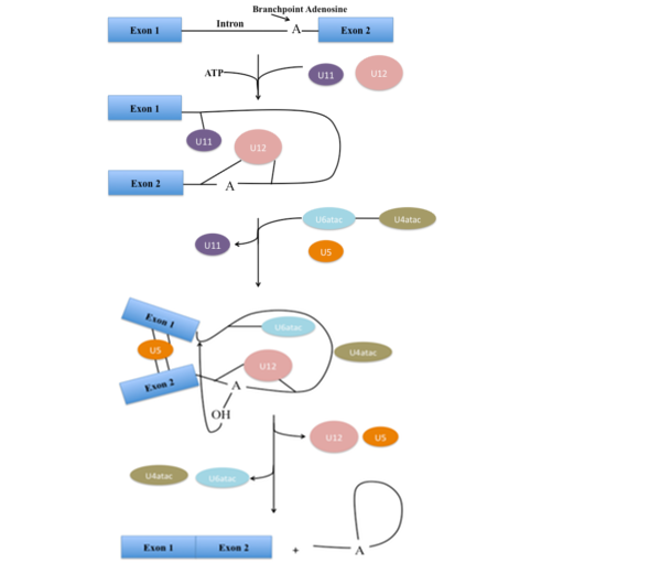 U12-dependent splicesome assembly pathway